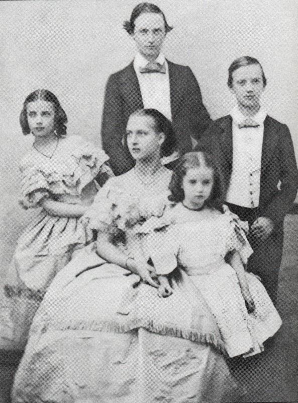 The children of Christian IX, King of Denmark: Dagmar, Frederick, Alexandra, Thyra and Vilhelm.